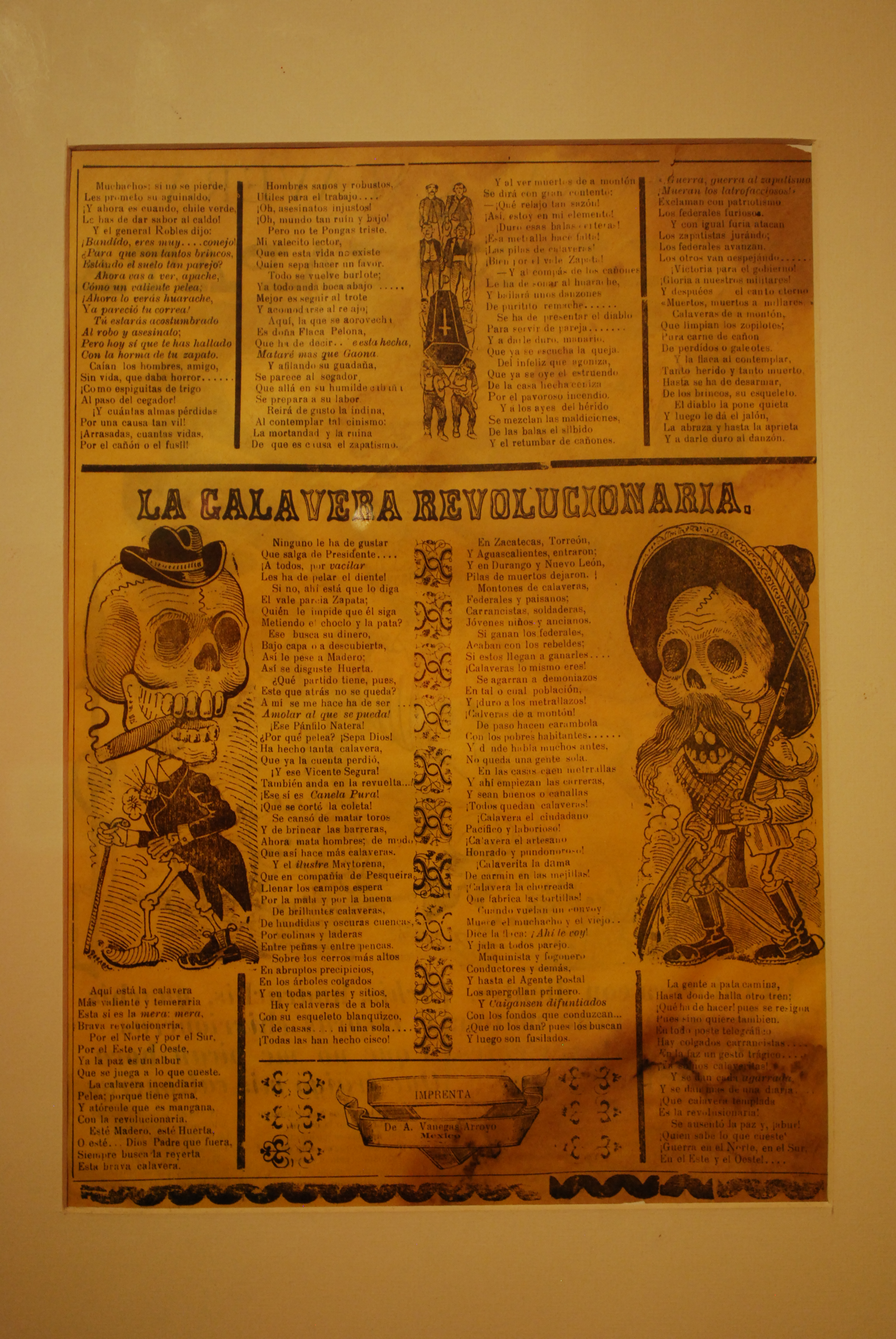 "La Calavera Revolucionara" (no date) by Jose Guadalupe Posada (who died in 1913)